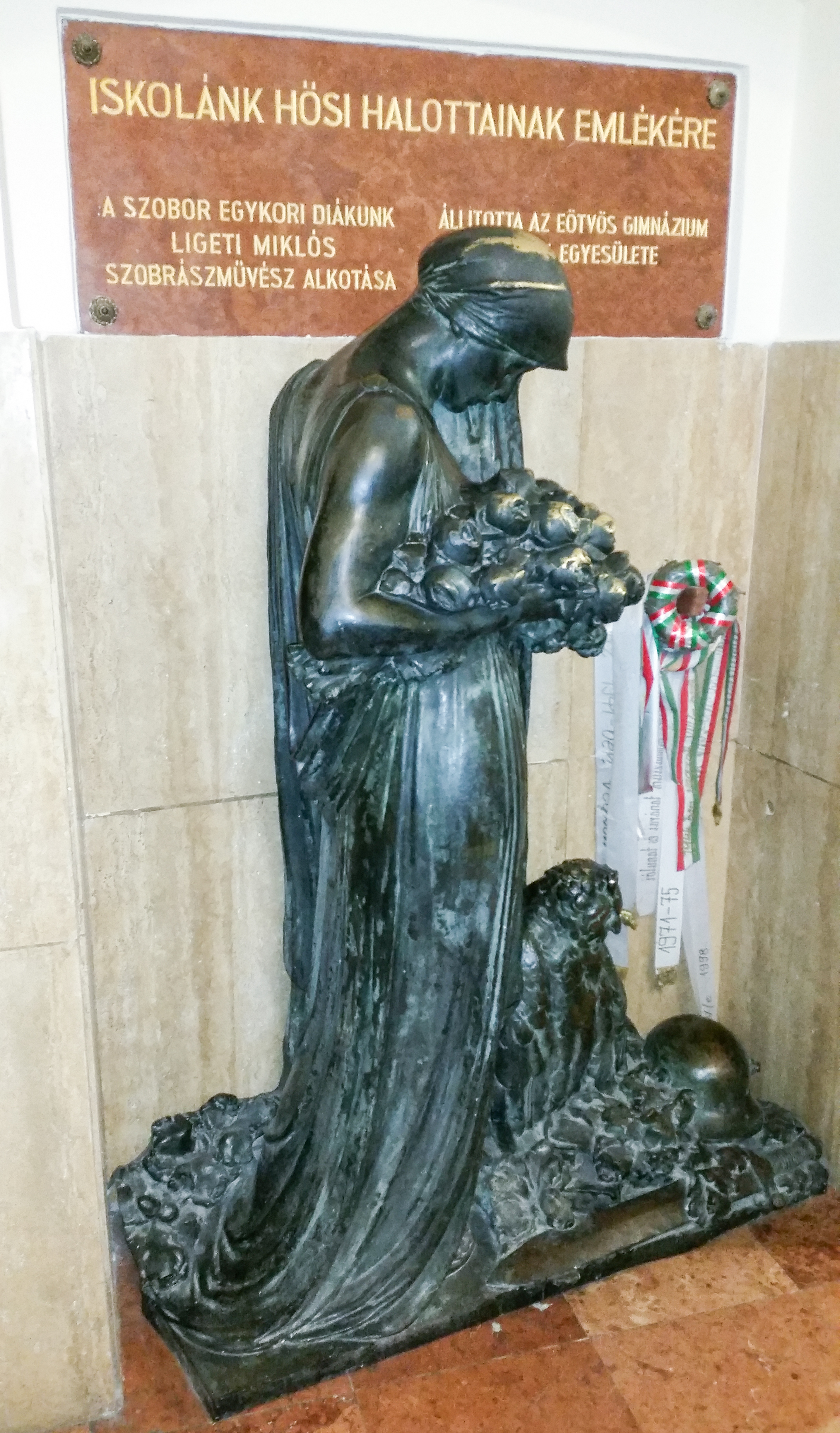 Monument to the fallen heroes in the Eötvös József Gimnázium (high school) in Budapest